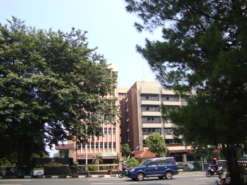 Street in Bogor downtown near the Presidential Palace